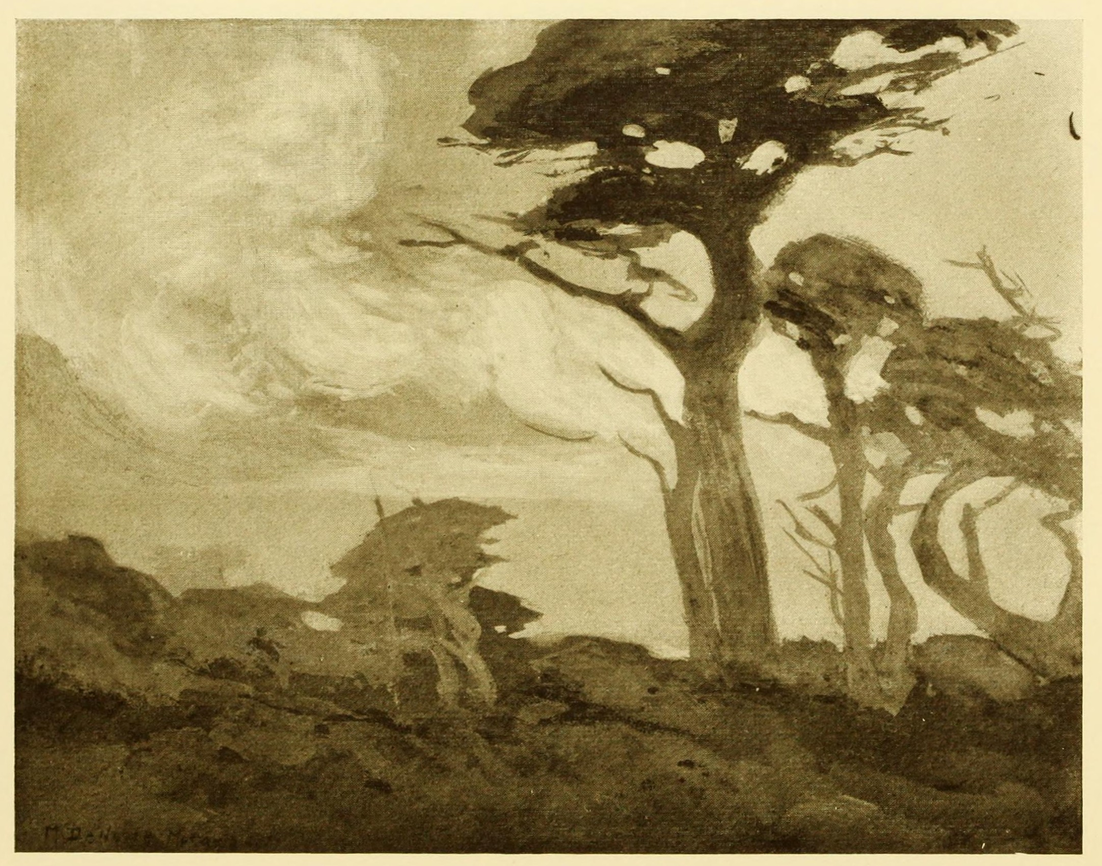 Title: Art in California : a survey of American art with special reference to Californian painting, sculpture and architecture past and present, particularly as those arts were represented at the Panama-Pacific International Exposition : being essays and articles by the following contributors Year: 1916 (1910s) Authors: Porter, Bruce Subjects: Panama-Pacific International Exposition (1915 : San Francisco, Calif.) Art, American Art Publisher: San Francisco : R.L. Bernier Text Appearing Before Image: ' Text Appearing After Image: O YE OF LITTLE FAITH By Emil Carlsen Plate No. 74